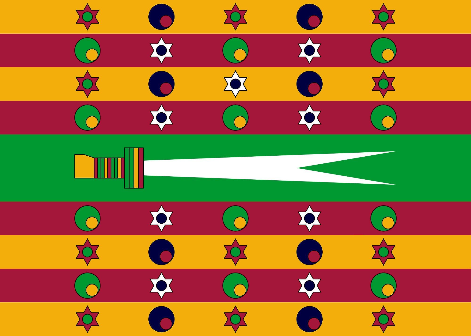 Recreation of a depiction in "Flags throughout the ages and across the world" by Whitney Smith. This flag is a also a correction of another flag on Wikipedia that was wrongly created and has since been removed due to an improper usage of overly-bright colors. That flag has since become prominent on the internet, and this flag is now correcting the other flag. The other flag, if found, would look strikingly similar, only it has colors so brights, that they were impossible to dye in the time period this flag existed. These two flags look very similar, but are strictly not the same, and copyright is maintained under two separate creators.